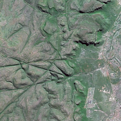 The northern Waterberg in the Limpopo province, photographed by the SPOT Satellite.In view is Kgopung mountain, reaching to 1,437m a.s.l., and the upper reaches of the Mogalakwena river at 900m. The hights are included in the Moepel Nature Reserve. The settlements (from north to south) are Ga-Molekwa, Jakkalskuil, Mokerong, Kobeana, Nkgori, Schuurmanshoogte and Basterspad.